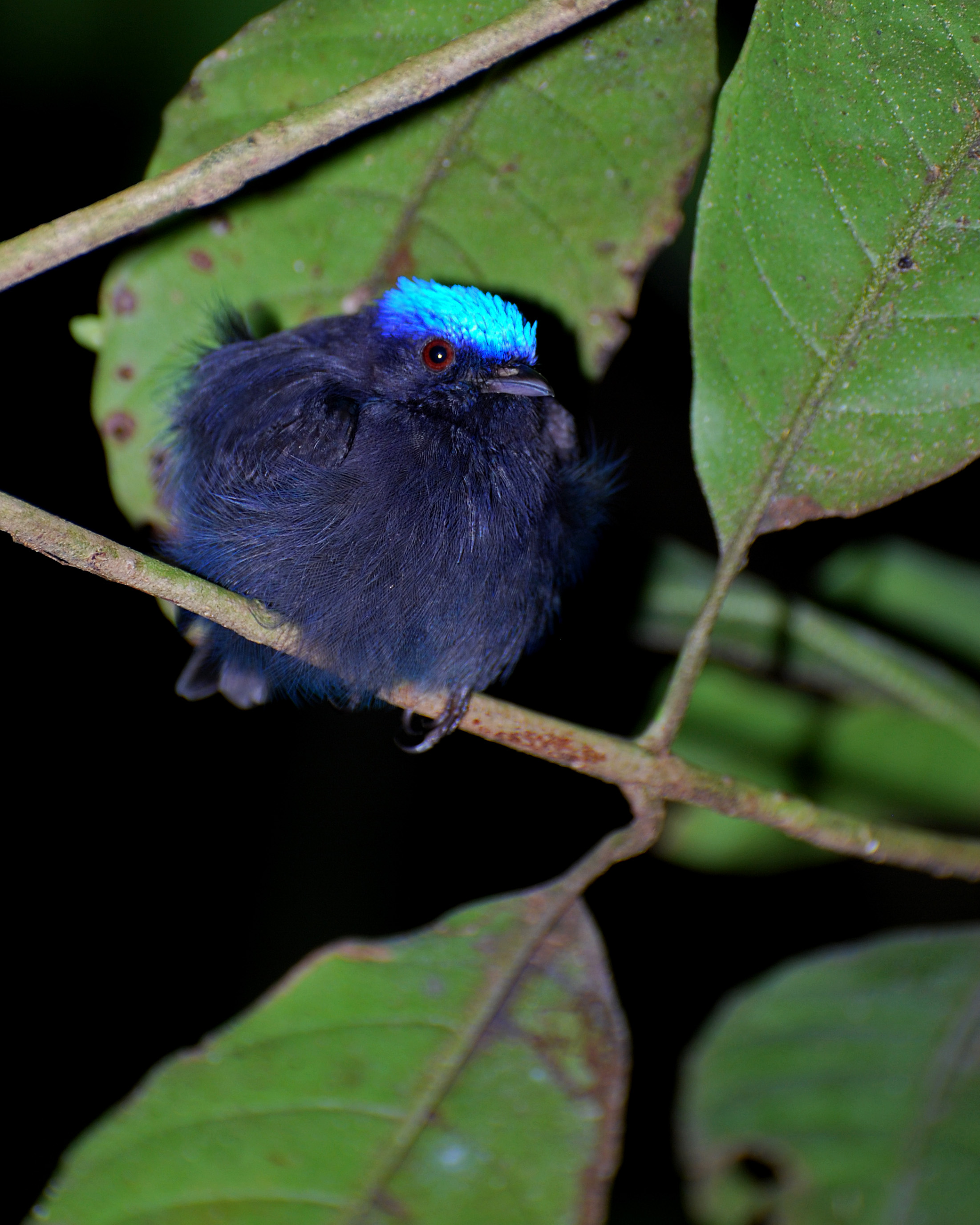 Lepidothrix coronata. Roosting bird, Yasuni National Park, Orellana, Ecuador